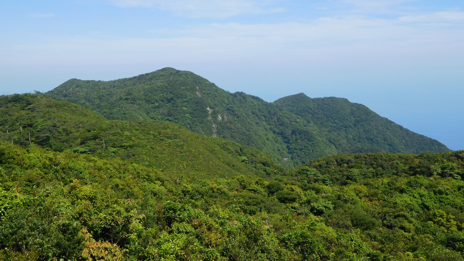 Mount Inao-dake (Osumi Peninsula, Kagoshima Prefecture, Japan)